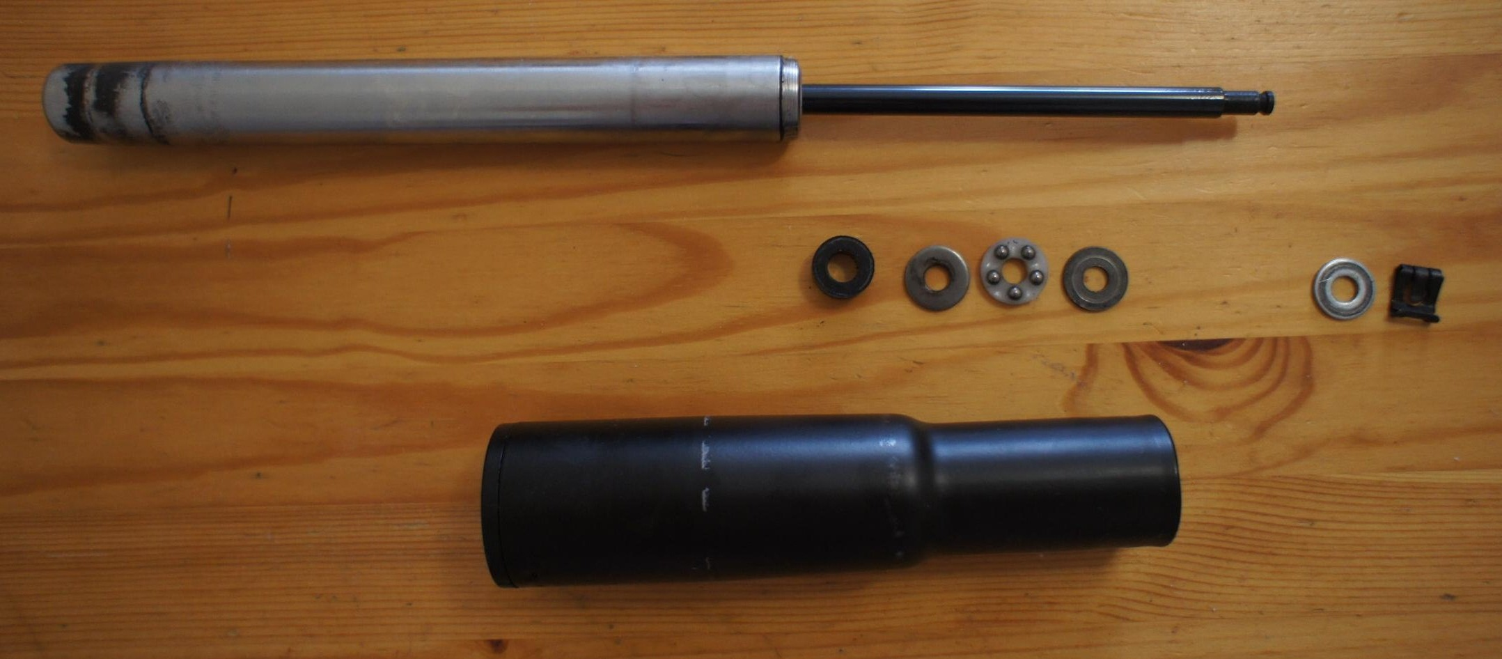 Chair gas spring disassembled